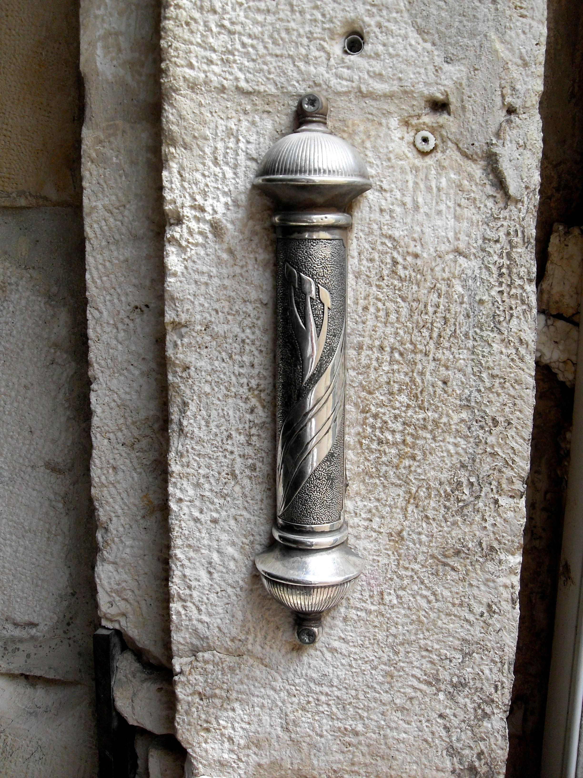 Old Jerusalem Yochanan ben Zakkai Synagogue Mezuzah